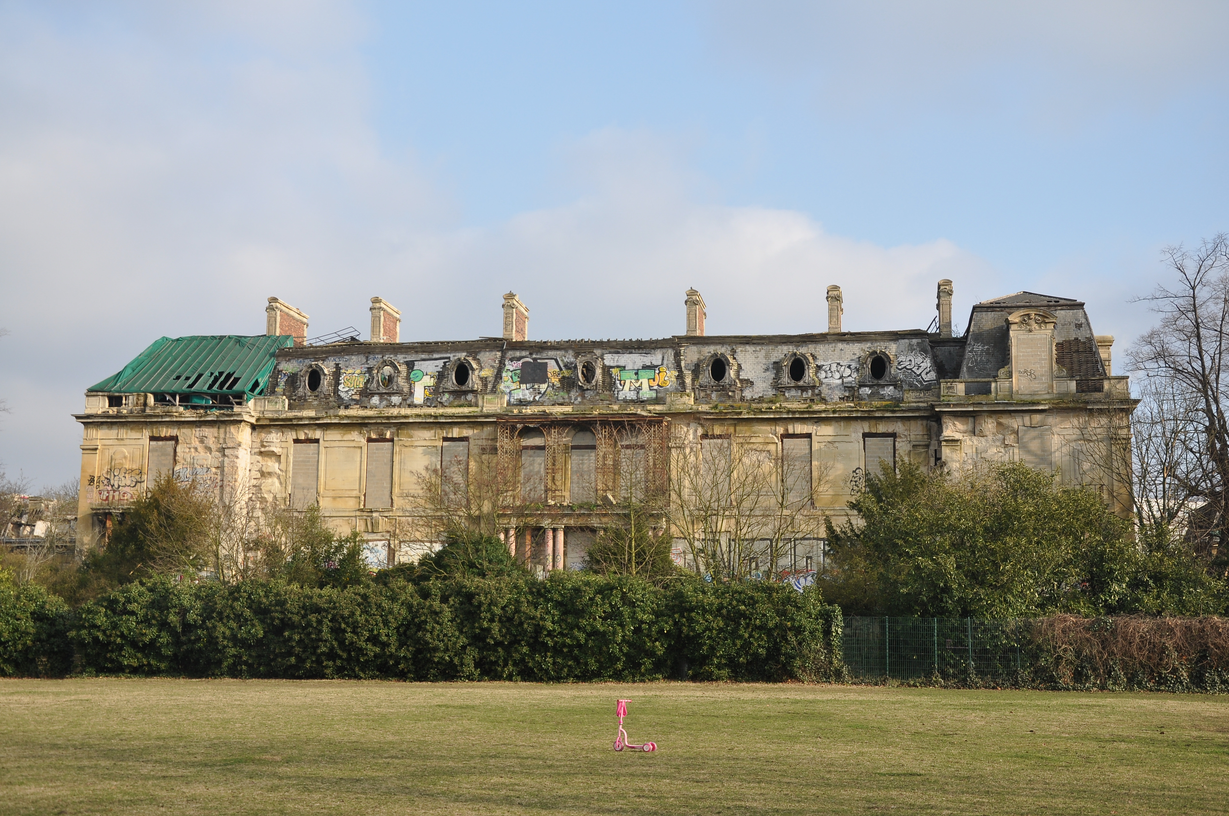 The former mansion of Rothschild family in Boulogne-Billancourt, Hauts-de-Seine in France. Built by architect Joseph-Armand Berthelin for James de Rothschild. The park designed in english style by architect Loyre. The interior decoration was the work of peinter Louis-Eugène Lami. It is indexed in the Base Mérimée, a database of architectural heritage maintained by the French Ministry of Culture, under the references PA92000003 and IA00119907.